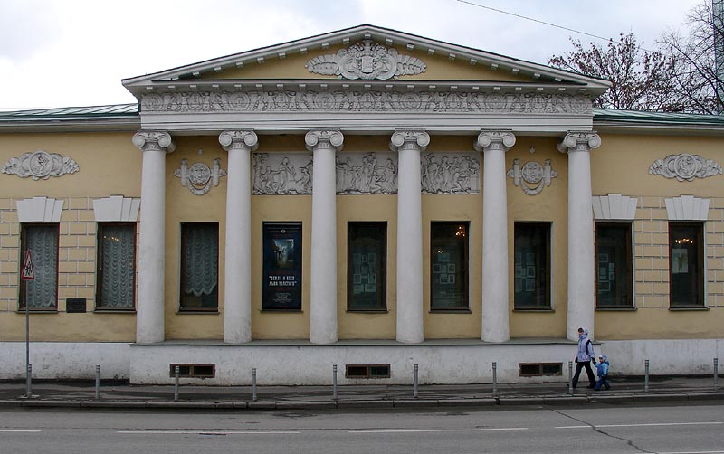 Leo Tolstoy Museum, Moscow, Prechistenka Street, architect: Afanasy Grigiriev, 1820s